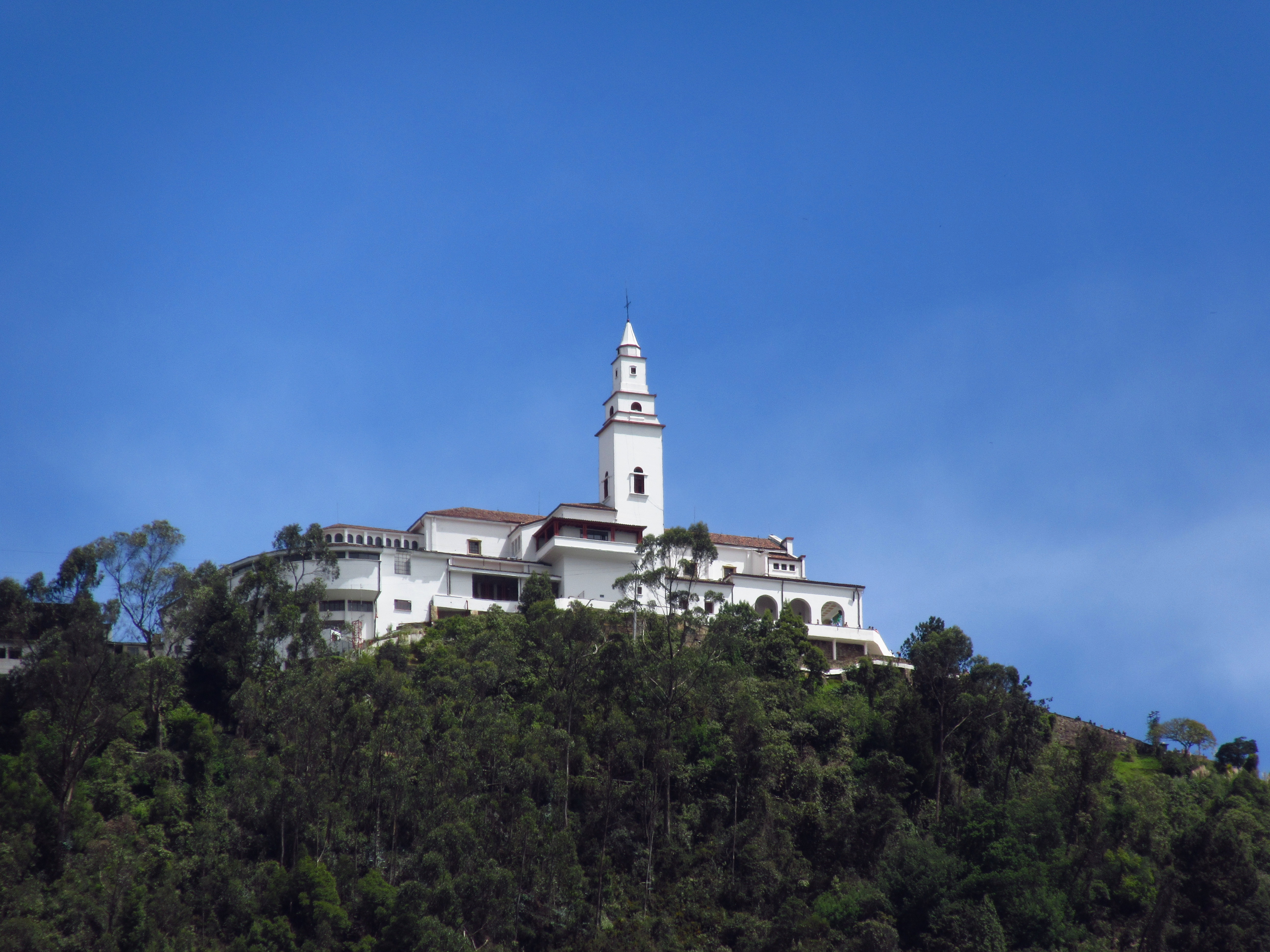 Bogotá